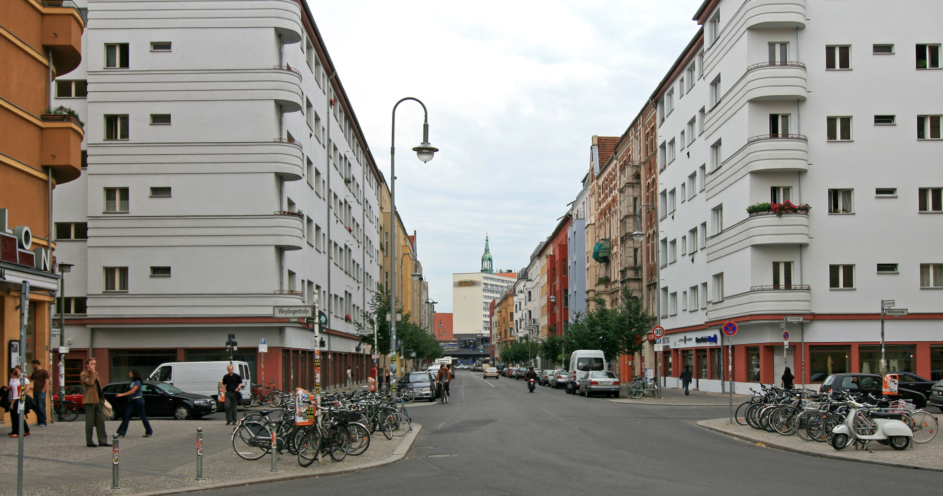 Rosa-Luxemburg-Strasse, Berlin. Looking south from Weydingerstrasse.